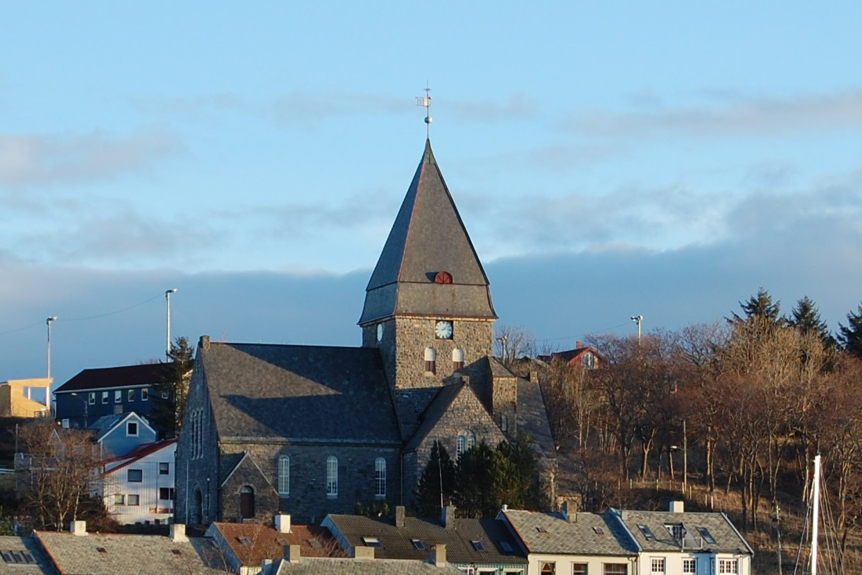 Nordlandet church in Kristiansund